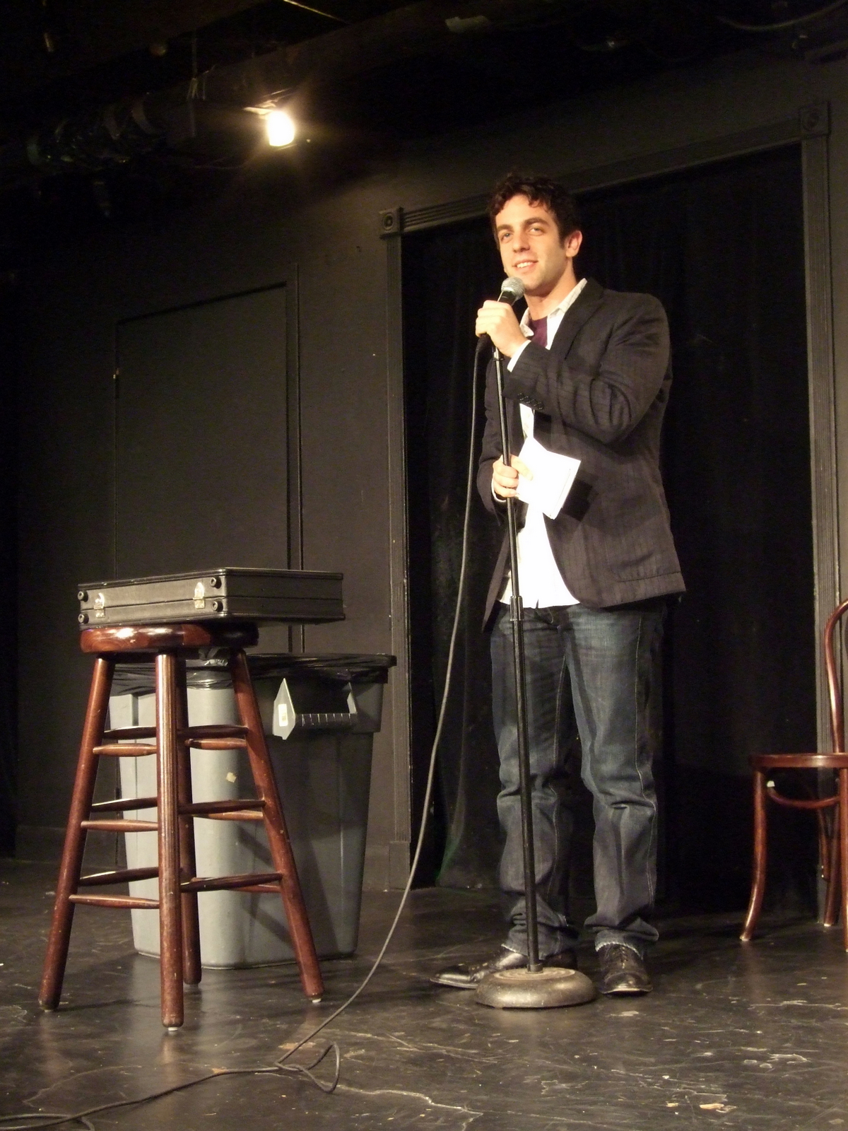 B. J. Novak tests out some new jokes at Olde English's Very Fresh.